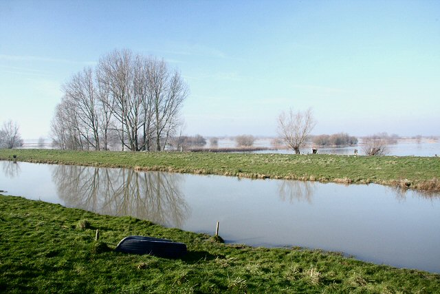 New Bedford River at Oxlode. Oxlode is a tiny hamlet on the east bank of the river. Behind the far river bank are the Ouse Washes, the area that is allowed to flood in winter, providing a haven for wildlife.